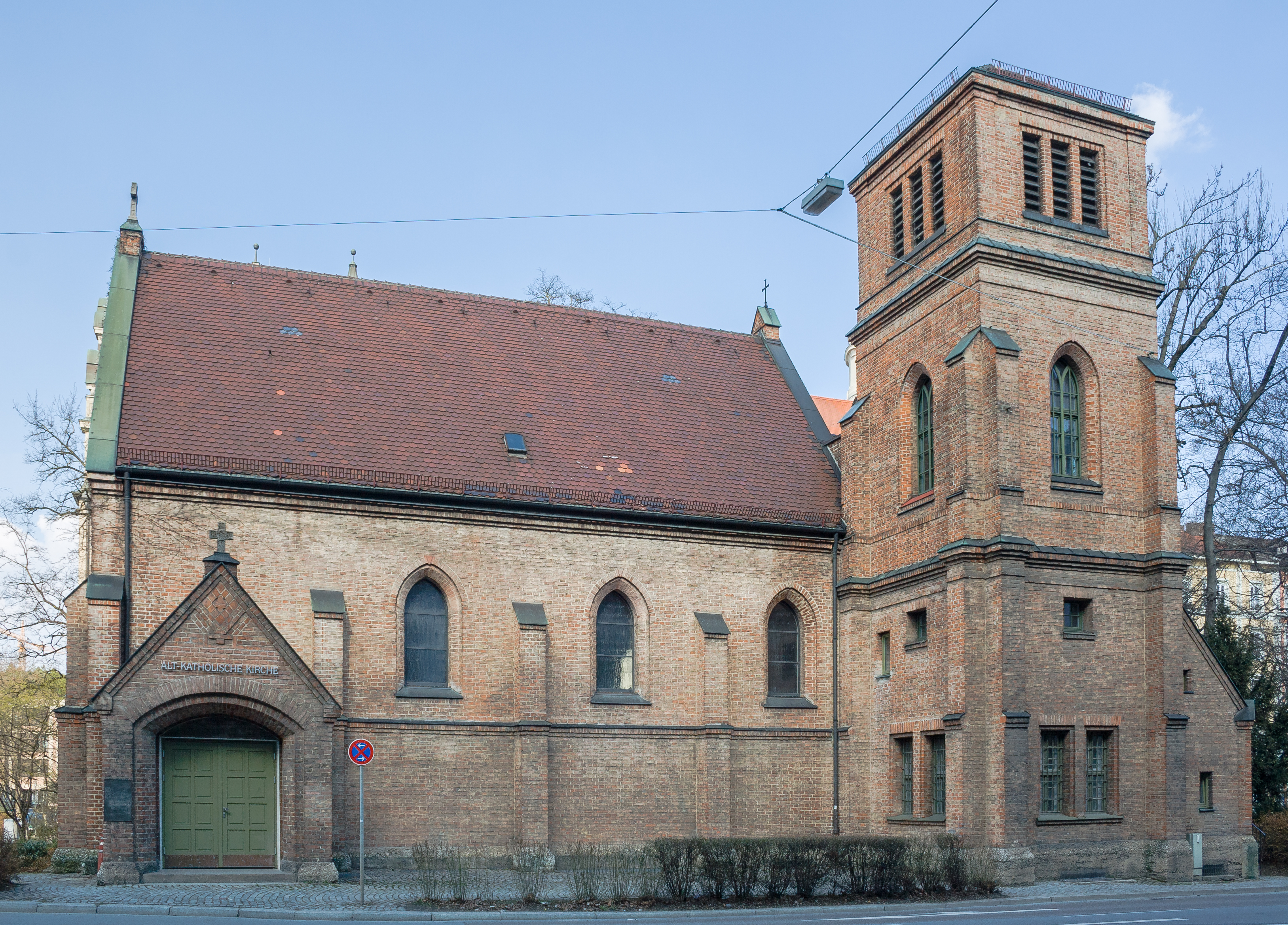 St. Willibrord's Church, Munich, Germany